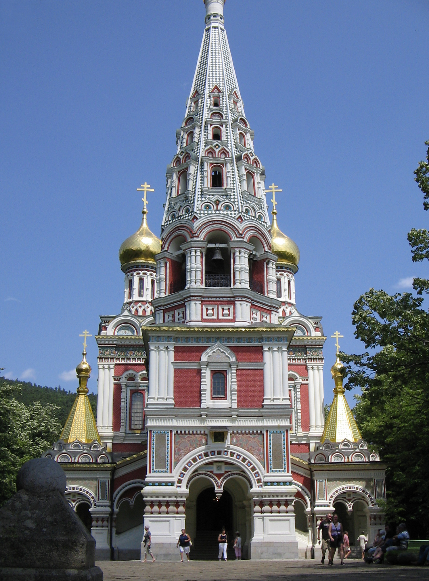 Memorial Church "Rojdestvo Hristovo" ("Christ Birth") in town Shipka, Bulgaria